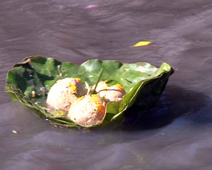 Offerings to dead parents.